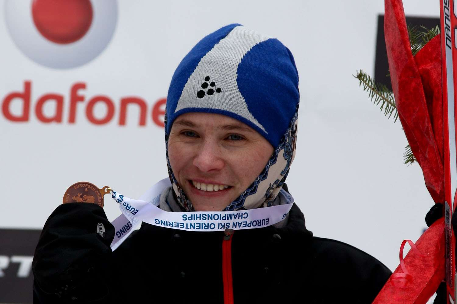 Tatiana Vlasova. European Ski-Orienteering Championship 2010, (8th - 15th February, 2010; Miercurea Ciuc, Romania)